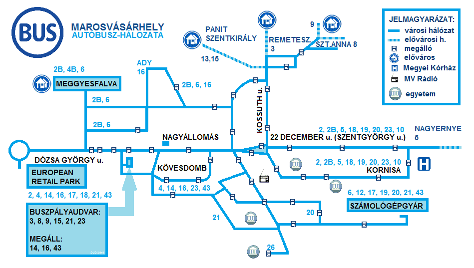 The map of bus network in Târgu Mureş, Romania, European Union in Hungarian